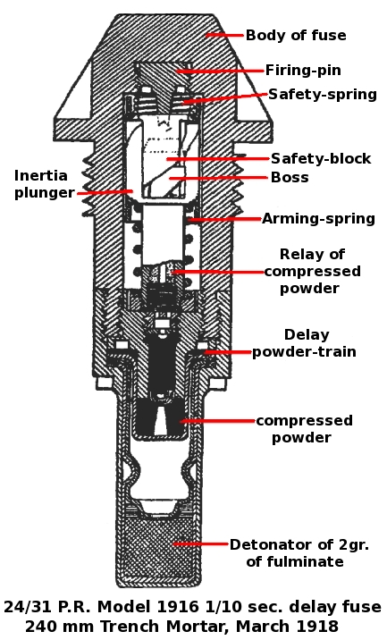 Cross-section view of of 24/31 P.R. (Peuch-Remondy) Model 1916 1/10 second delay action fuse, in unarmed state, for 240 mm Trench Mortar bomb and 58 mm Trench Mortar bomb.